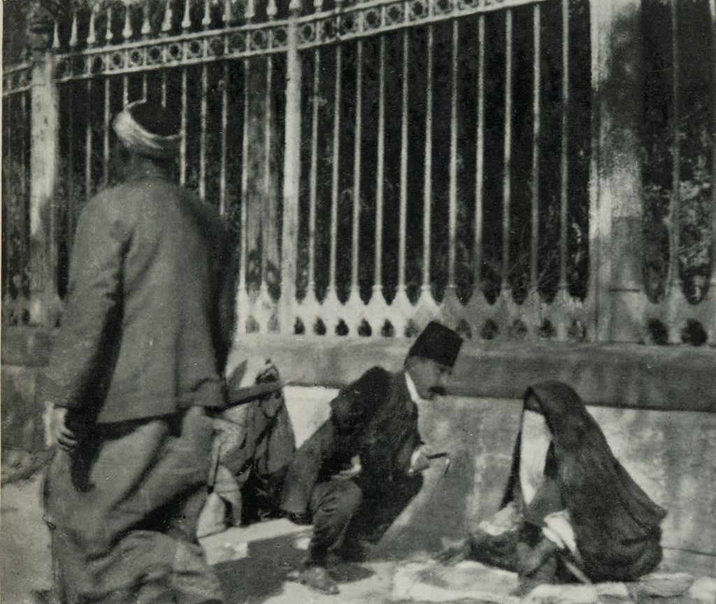 “AN EFFENDI HAVING HIS FORTUNE TOLD OUTSIDE THE ESBEKIYA GARDENS.” A well-dressed man squats in front of a fortune teller. Black-and-white photograph.